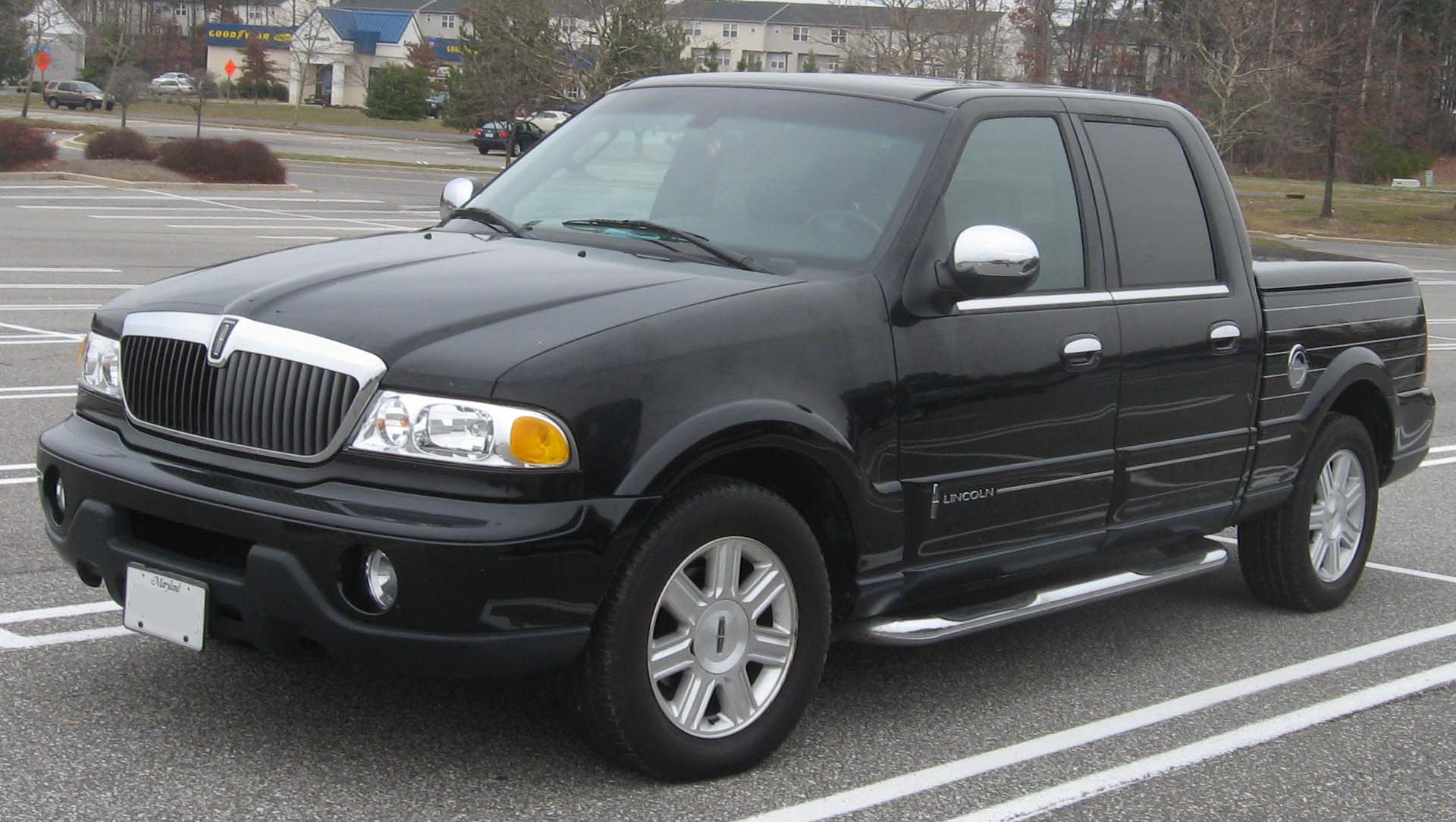 2002 Lincoln Blackwood photographed in Waldorf, Maryland, USA.